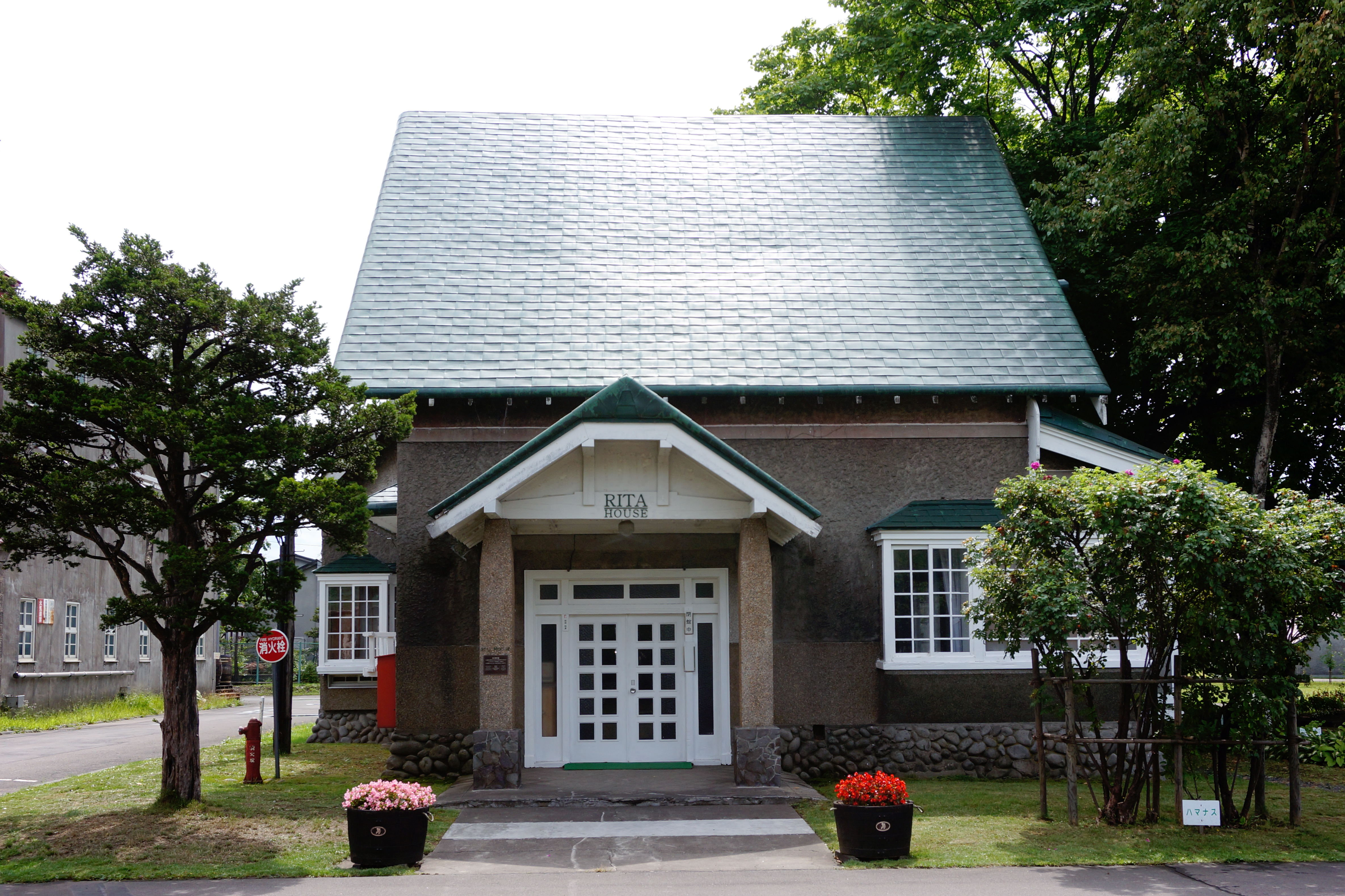 Nikka Wisky Yoichi Distillery in Yoichi, Hokkaido prefecture, Japan.